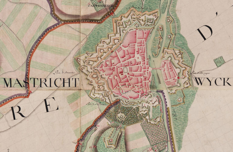 Maastricht as depicted on the 18th century Ferraris maps